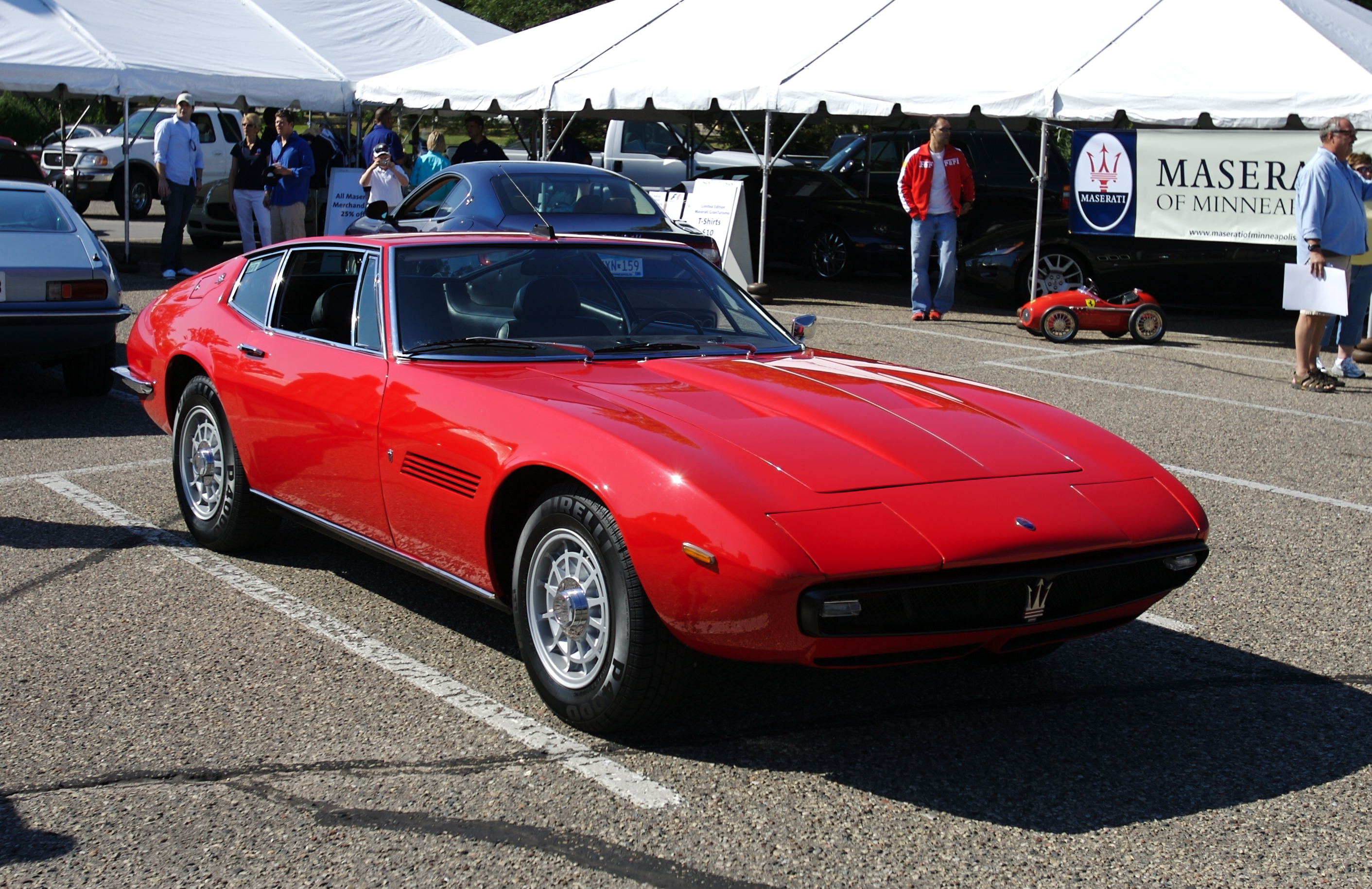 Maserati Ghibli. Photo by MJDPhotography